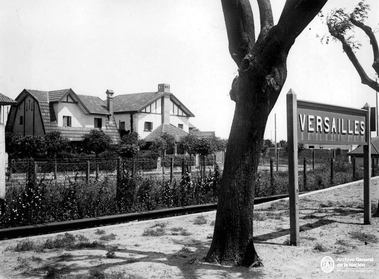 Versailles train station, terminus of the BA Great Southern Railway's Villa Luro–Versailles branch. The line operated from 1911 to 1953.